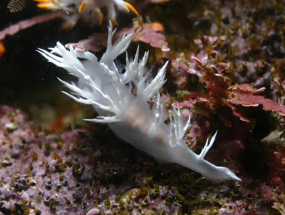 A white dendronotus nudibranch Dendronotus albus with orange-tipped cerata.